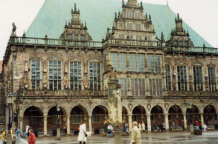 Bremen Town Hall. Taken by Adrian Pingstone in 1990 and released to the public domain. Afbeelding:Bremen.rathaus.750pix.jpg